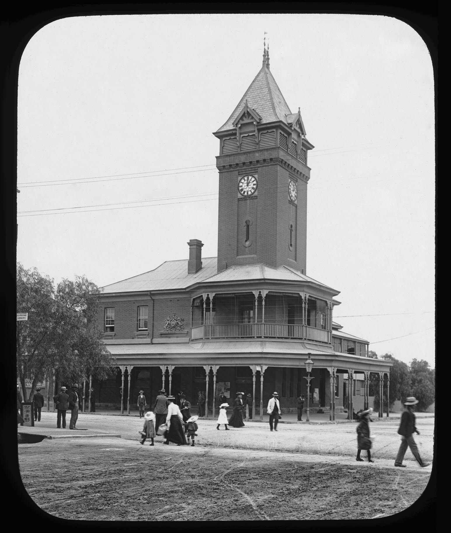 Post Office in Broken Hill, New South Wales, Australia circa 1900s.